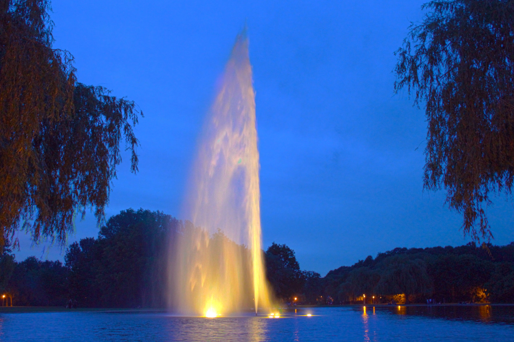 Fountain in Halle/Saale